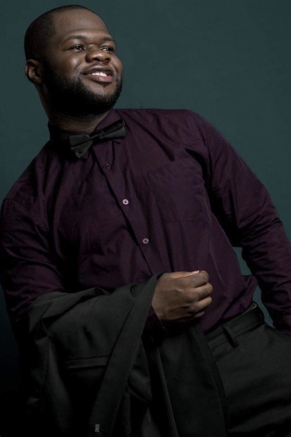 bucky